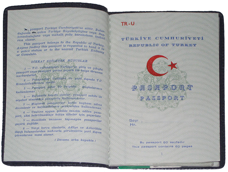 First page of a regular Turkish Passport.